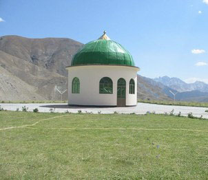 Massouds Tomb in the Panjshir valley, Panjshir Province, Afghanistan